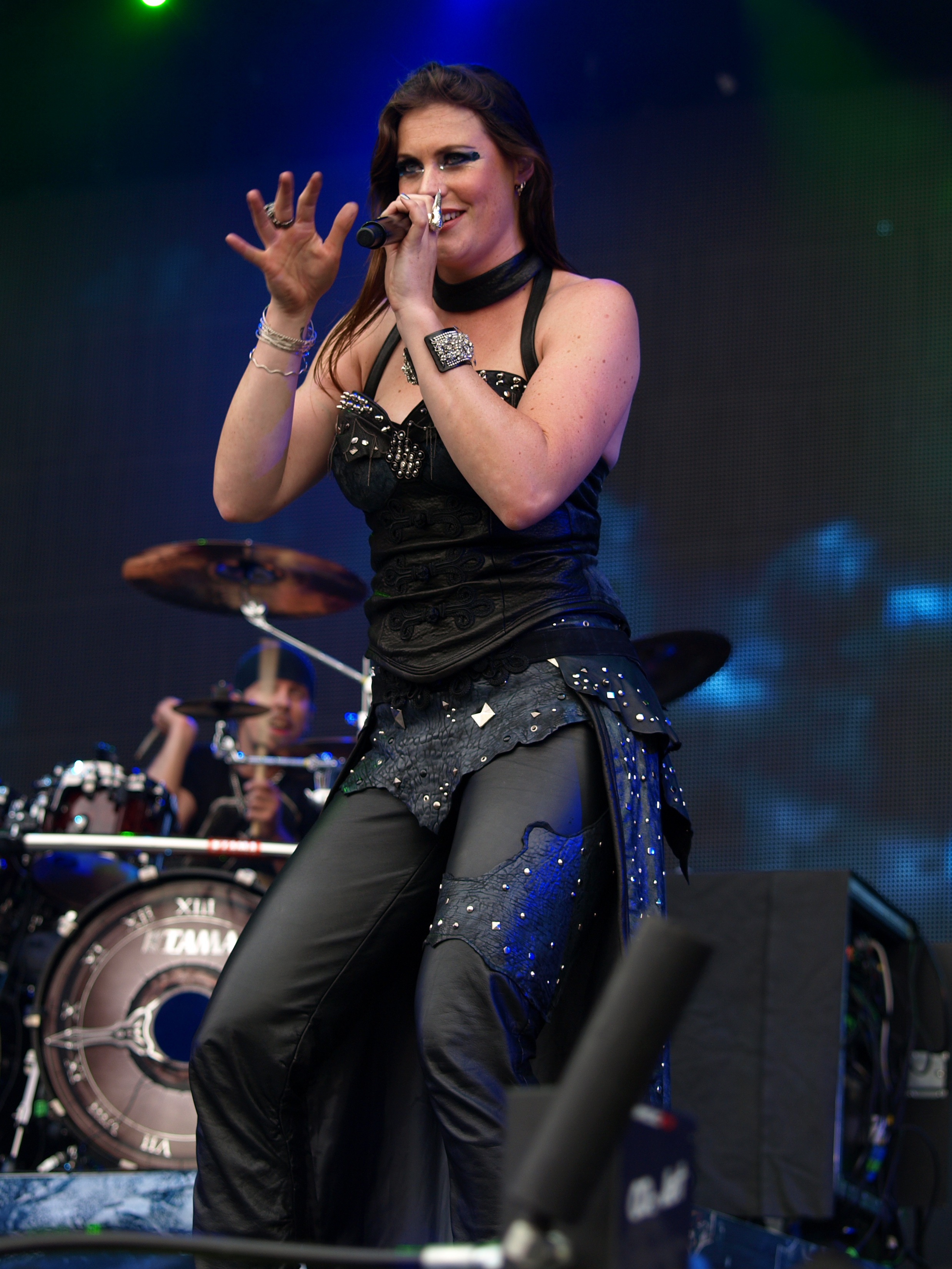 Finnish band Nightwish at Tuska Open Air 2013